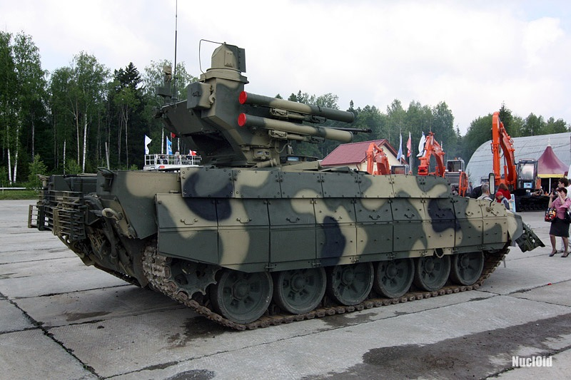 Right-rear side view of BMPT (Tank Support Fighting Vehicle) by Uralvagonzavod on Russian Expo Arms 2009 in Nizhny Tagil